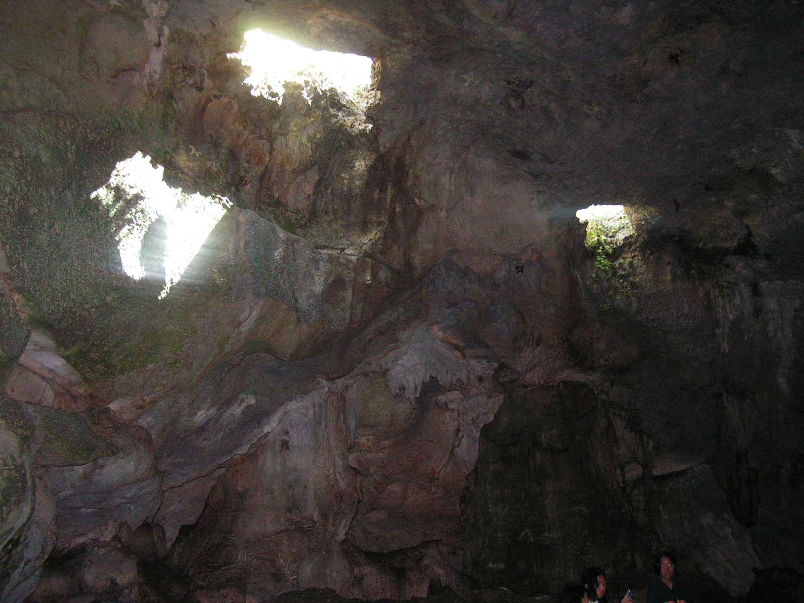 own work